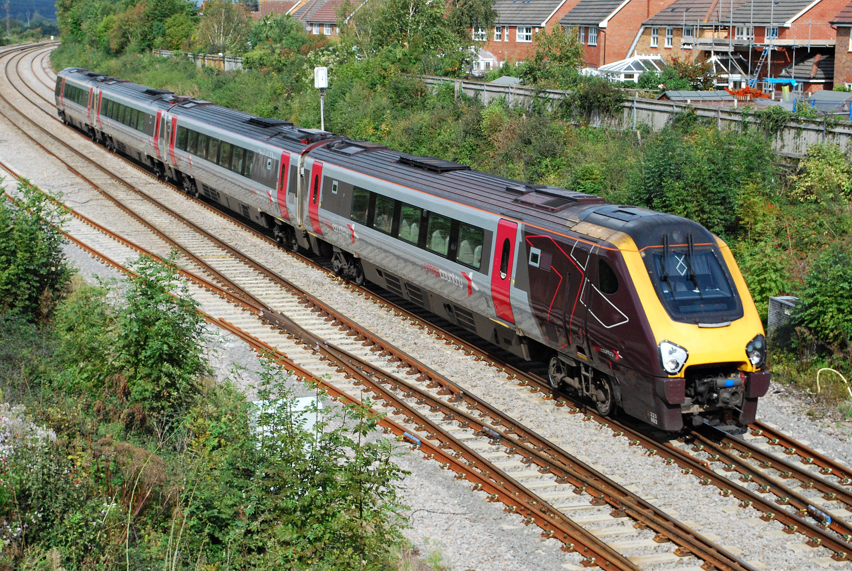 Bombardier (Wakefield & Brugge) Class 220 "Voyager" 4-car dmu No.220 002 (ex- "Forth Voyager") of Arriva Cross Country on a Birmingham New St - Plymouth service passing Charfield, 09/10.